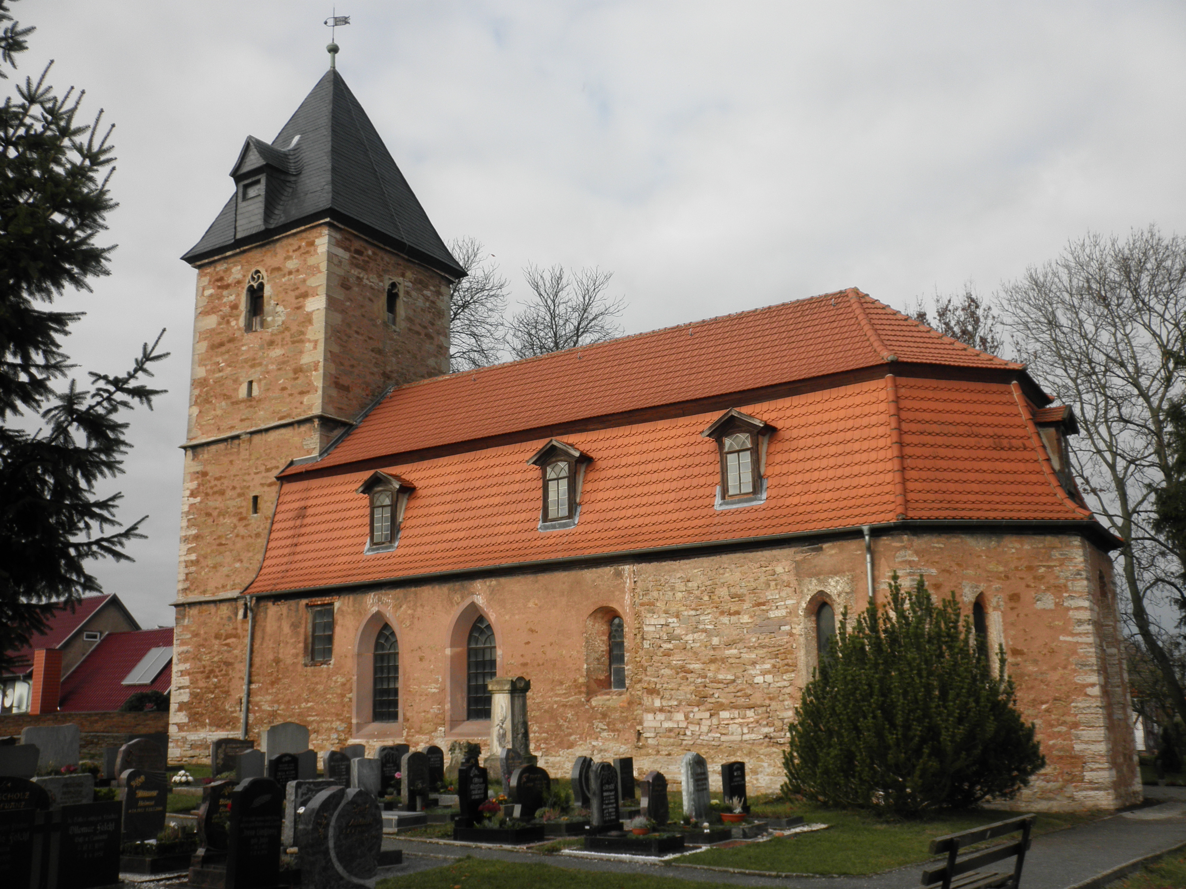 Church in Allmenhausen (Ebeleben) in Thuringia